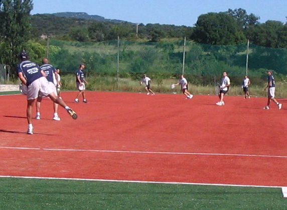 Tamburello at Notre-Dame-de-Londres (Hérault, France). Match of the Division 1 French championship : Notre-Dame-de-Londres Vs. Cournonterral, saturday june 28th 2008.